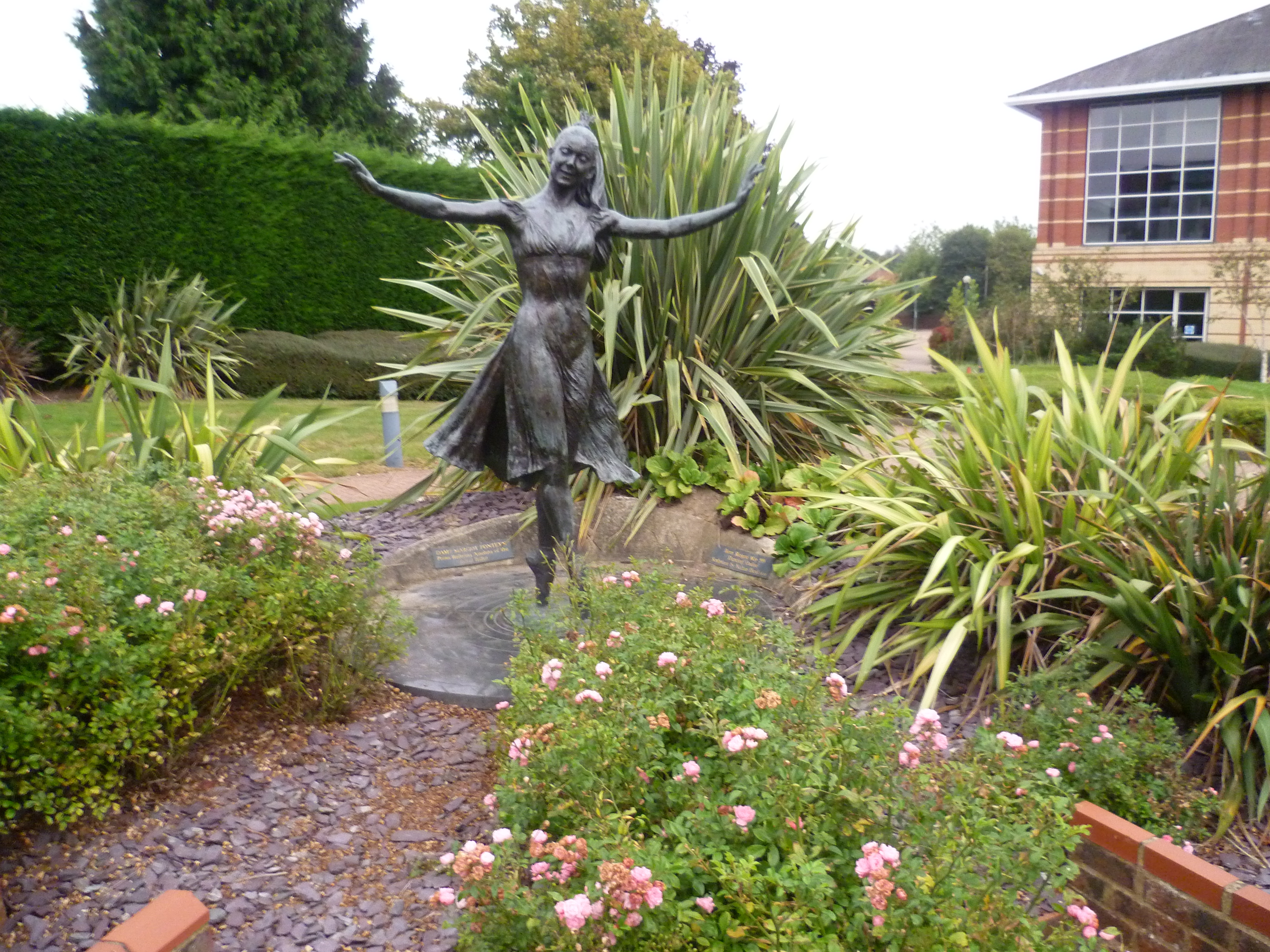 Statue to Margot Fonteyn, Reigate by sculptor Nathan David, FRBS. Margot Fonteyn was born Margaret Hookham on 18th May 1919 in Reigate, Surrey, to an English father and a half-Irish half-Brazilian mother. This statue to her is outside Watson House in London Road on the way from the town centre to the station. The piece was made by British sculptor Nathan David, FRBS and unveiled by Dame Margot in 1980.